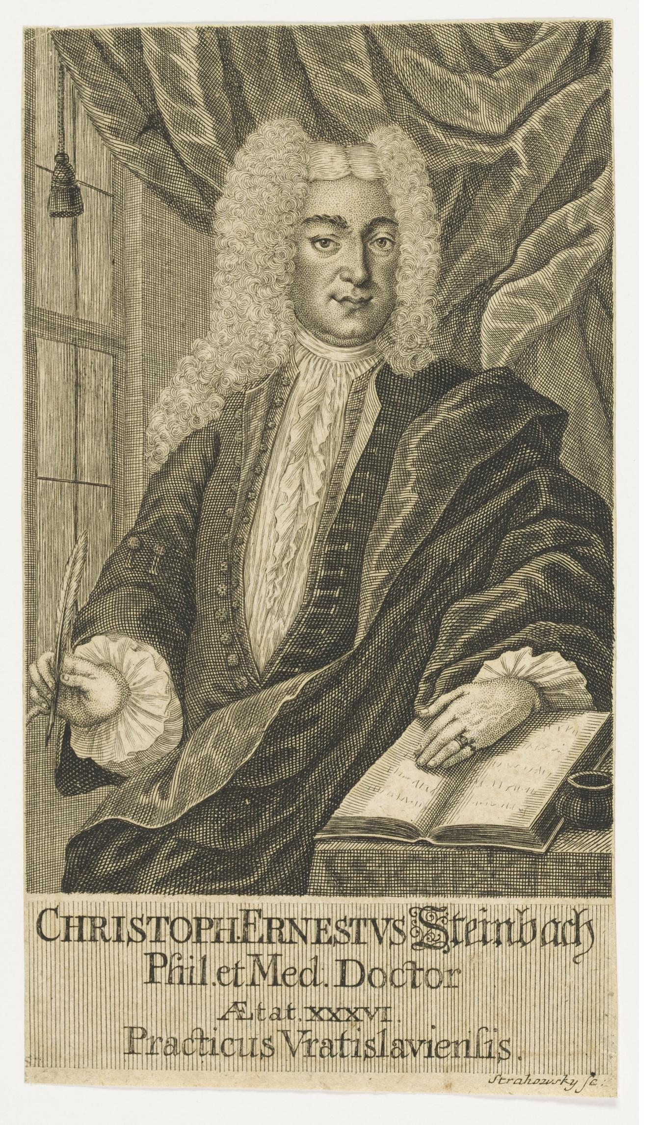 Etching of the German physician and lexicographer Christoph Ernst Steinbach.